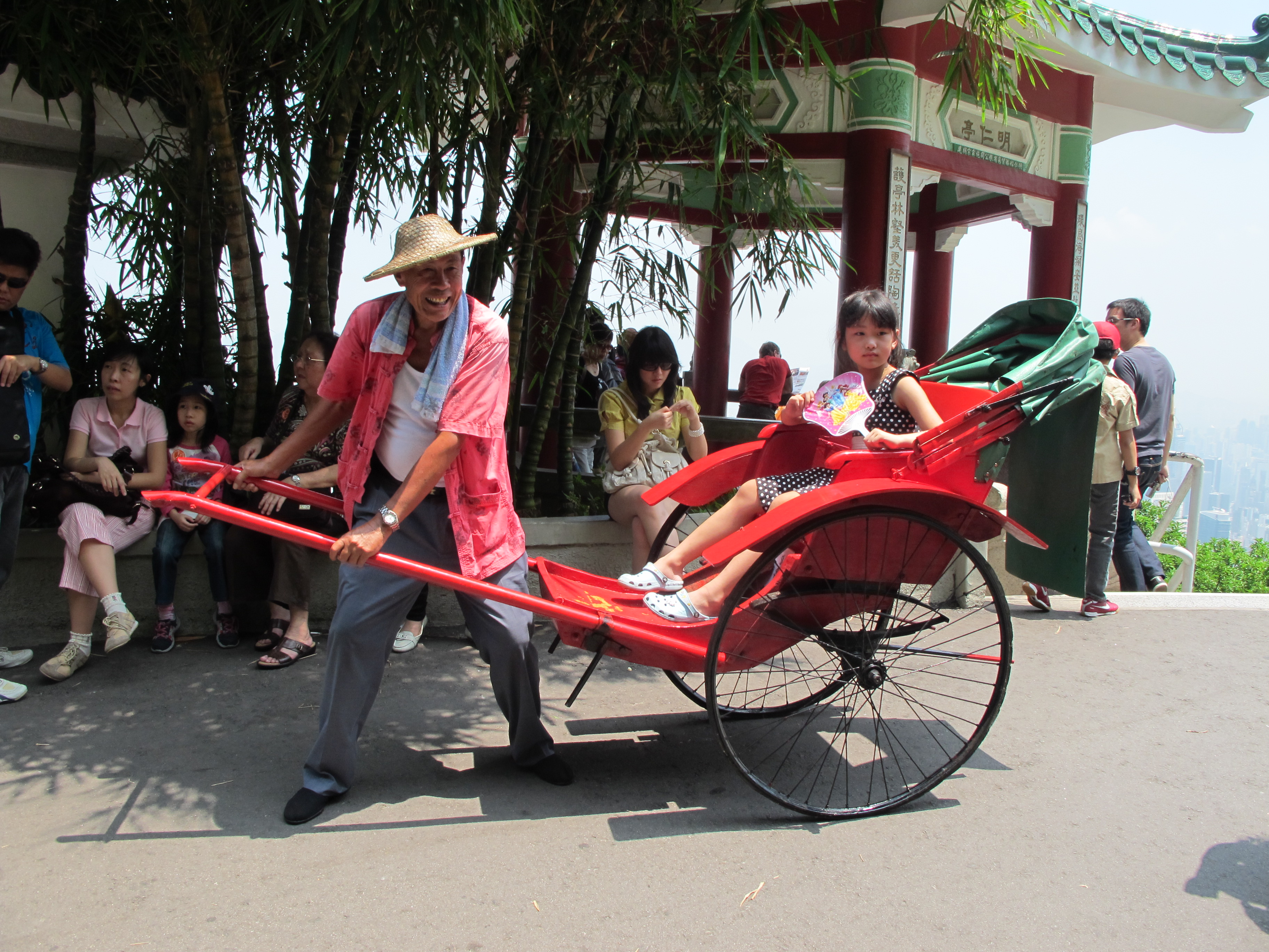 Outside the Lion Pavilion Lookout on Findley Road, The Peak, Hong Kong can find this old man offering rickshaw ride. He is one of the few remaining licensed rickshaw pullers in Hong Kong. This ride is also the final rickshaw ride in Hong Kong.